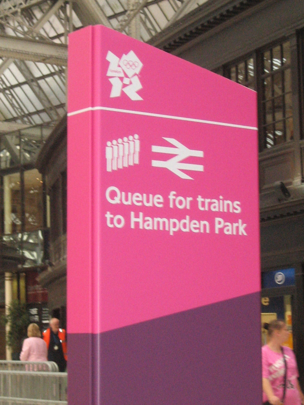 Passenger signage for the London 2012 Olympic Games at Glasgow Central station, July 2012